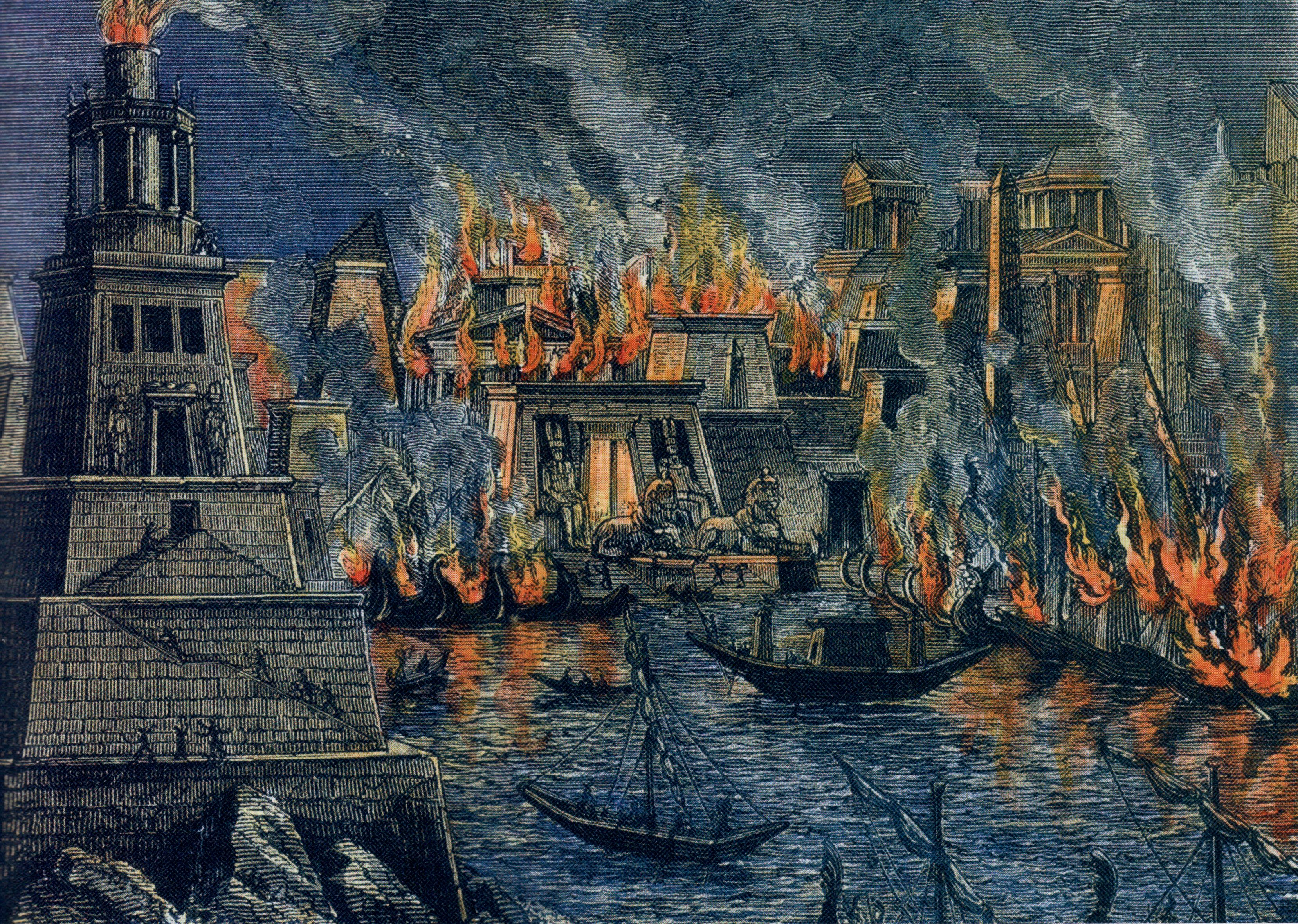 The fire of Alexandria, woodcuts by Hermann Göll, 1876.